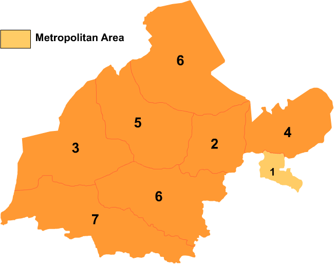 Map of Jiuquan in Gansu province. 1. 肃州区 2. 玉门市 3. 敦煌市 4. 金塔县 5. 瓜州县 6. 肃北蒙古族自治县 7. 阿克塞哈萨克族自治县